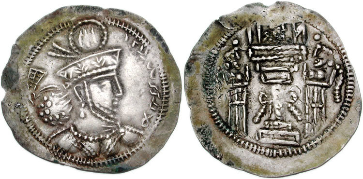 Alchon Huns. Uncertain King. 5th century AD. Imitating Sasanian king Shahpur III